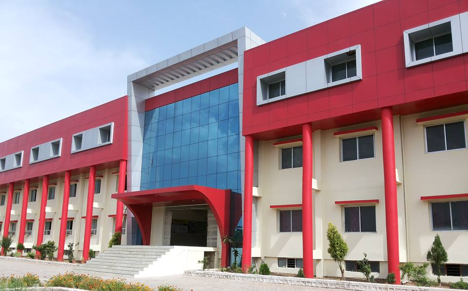 Lakshmi Narain College of Technology, Jabalpur (LNCT Jabalpur)'s Main Building